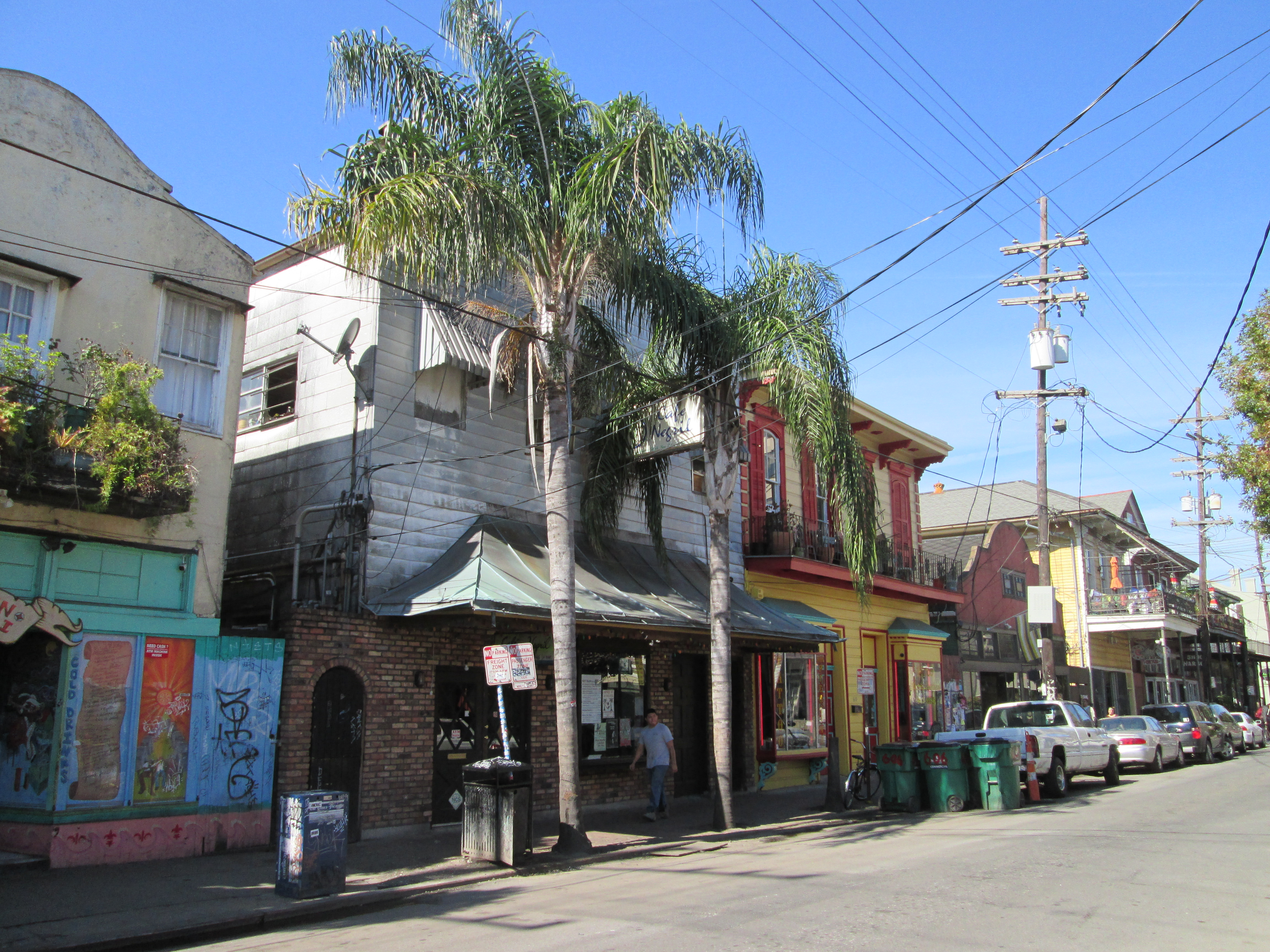 Frenchmen Street, Faubourg Marigny, New Orleans. Along the entertainment strip, popular for live music and events at night, as een during much quieter day.